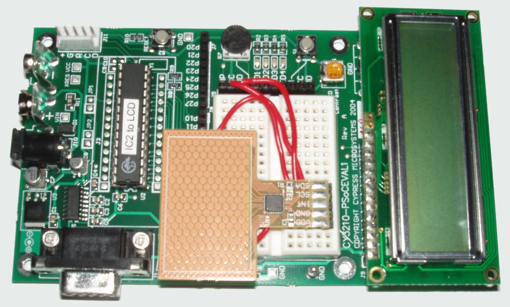 CY3210-PSoCEval1 - Small Development Kit from Cypress Semiconductor for PSoC Microcontroller including CapSense-Technology Touchpad (not in origin Kit included)